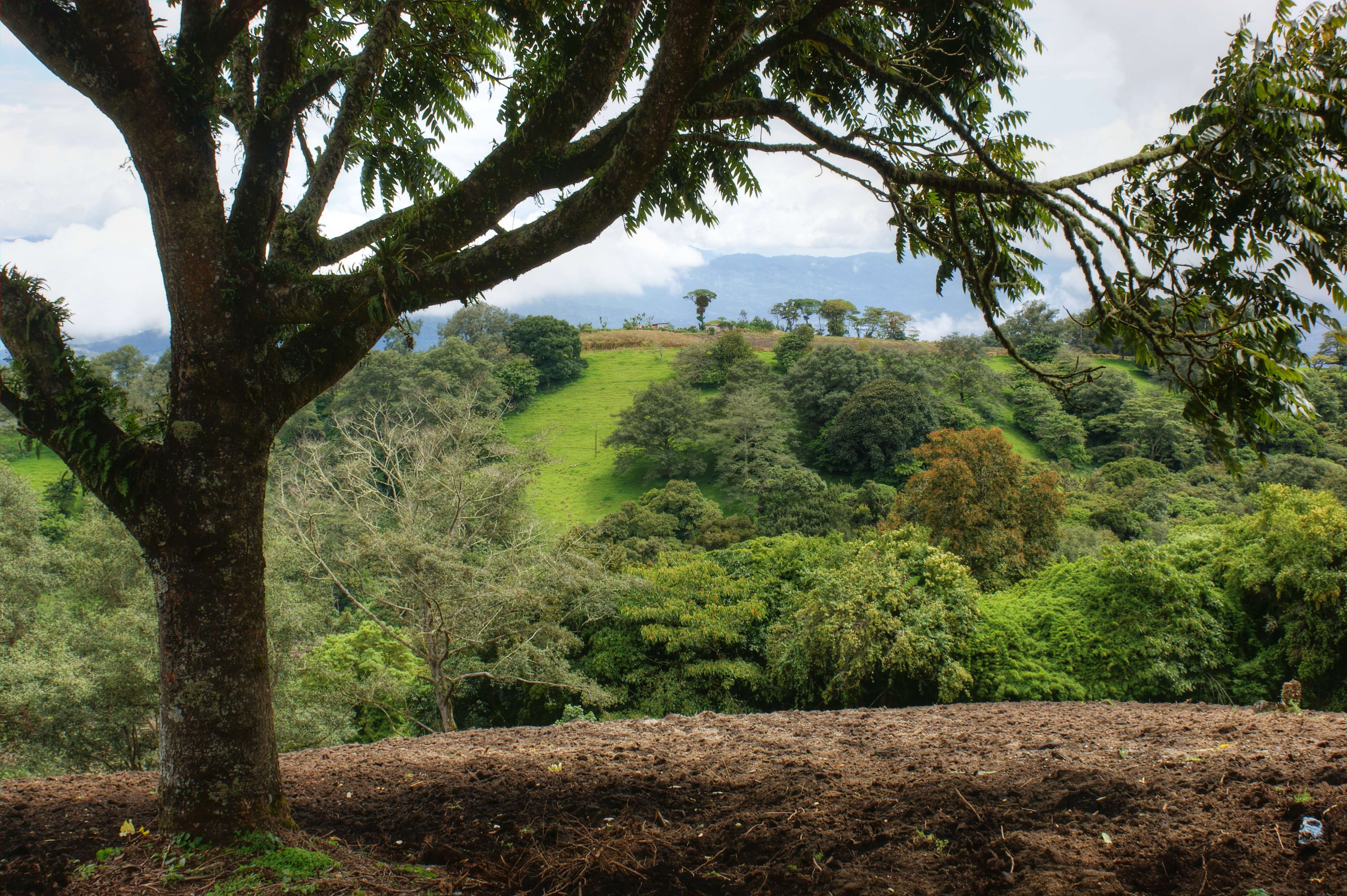 Rancho Redondo landscape